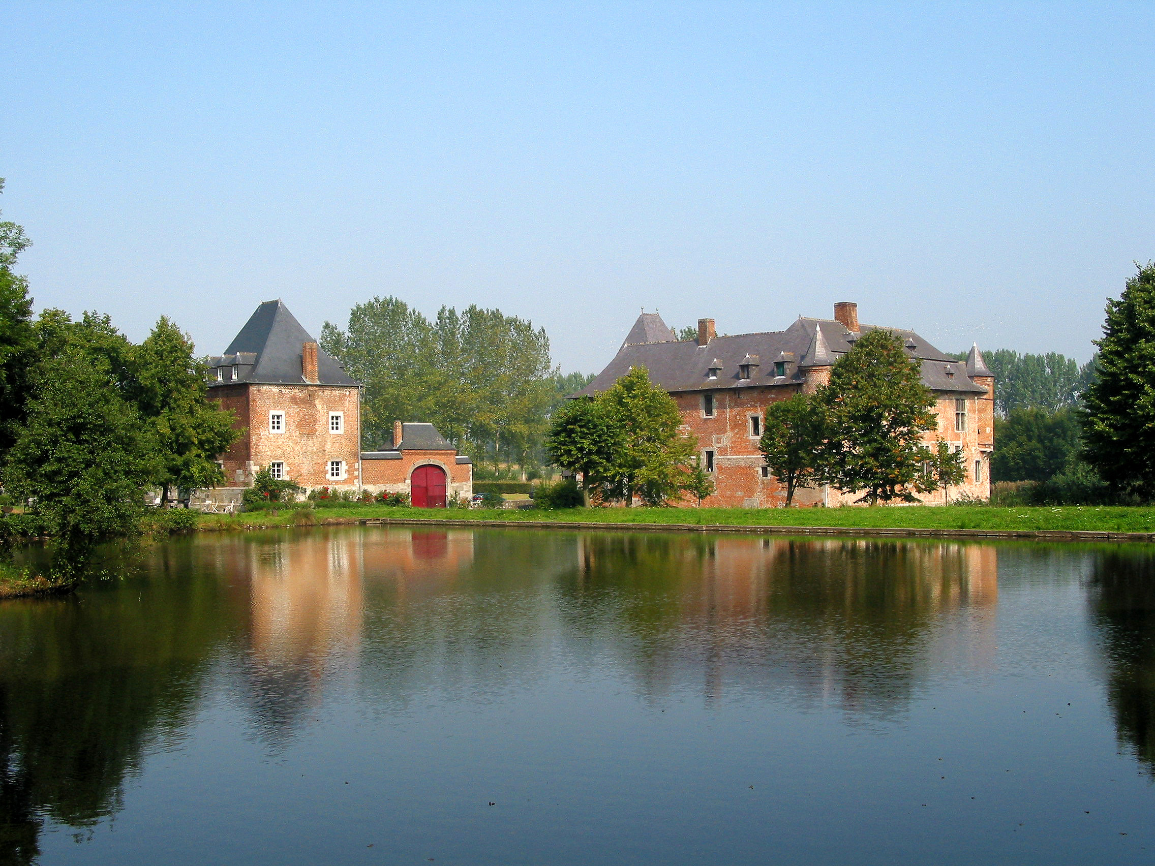 Noville-les-Bois (Belgium), the Fernelmont castle (XIII/XVIIth centuries).